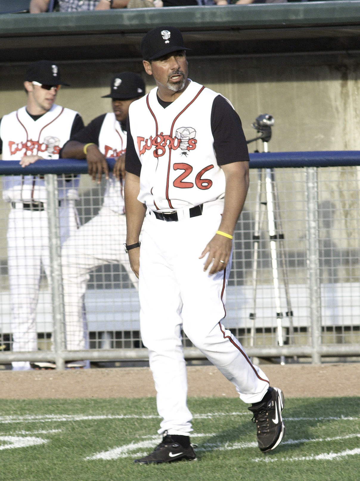 Vince Horsman of the Lansing Lugnuts emerges from the dugout during a 2011 game against the Burlington Bees.